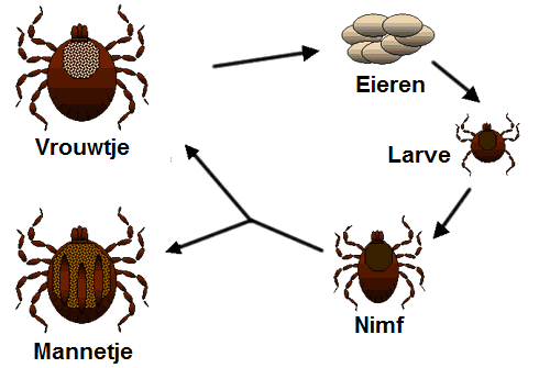 NL version of [Life cycle of ticks family ixodidae.PNG]